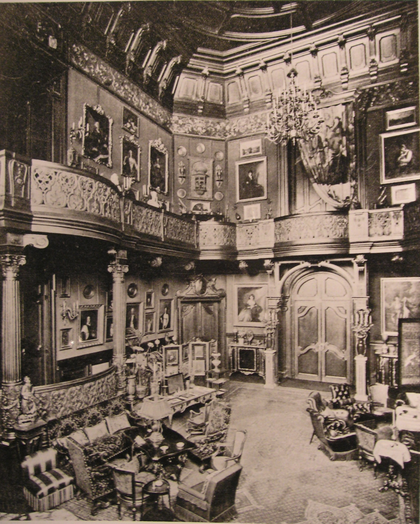 Image of the Palais Lanckoroński in Vienna, which was the private residence of Count Lanckoroński and his vast art collection, which was open to the public. The image is part of a post-card series that were made specifically for the building and its collection.